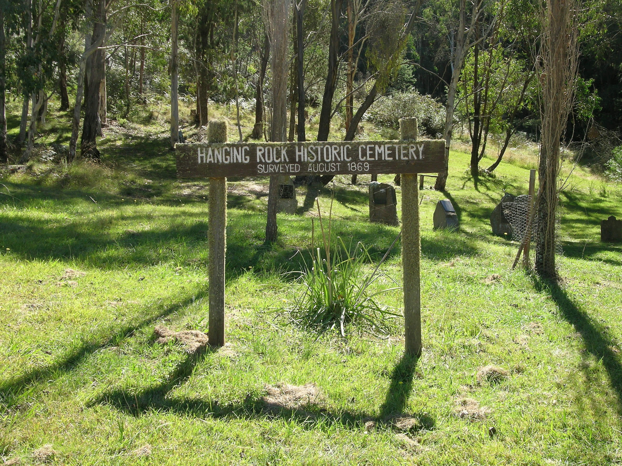 Hanging Rock Historical Cemetery